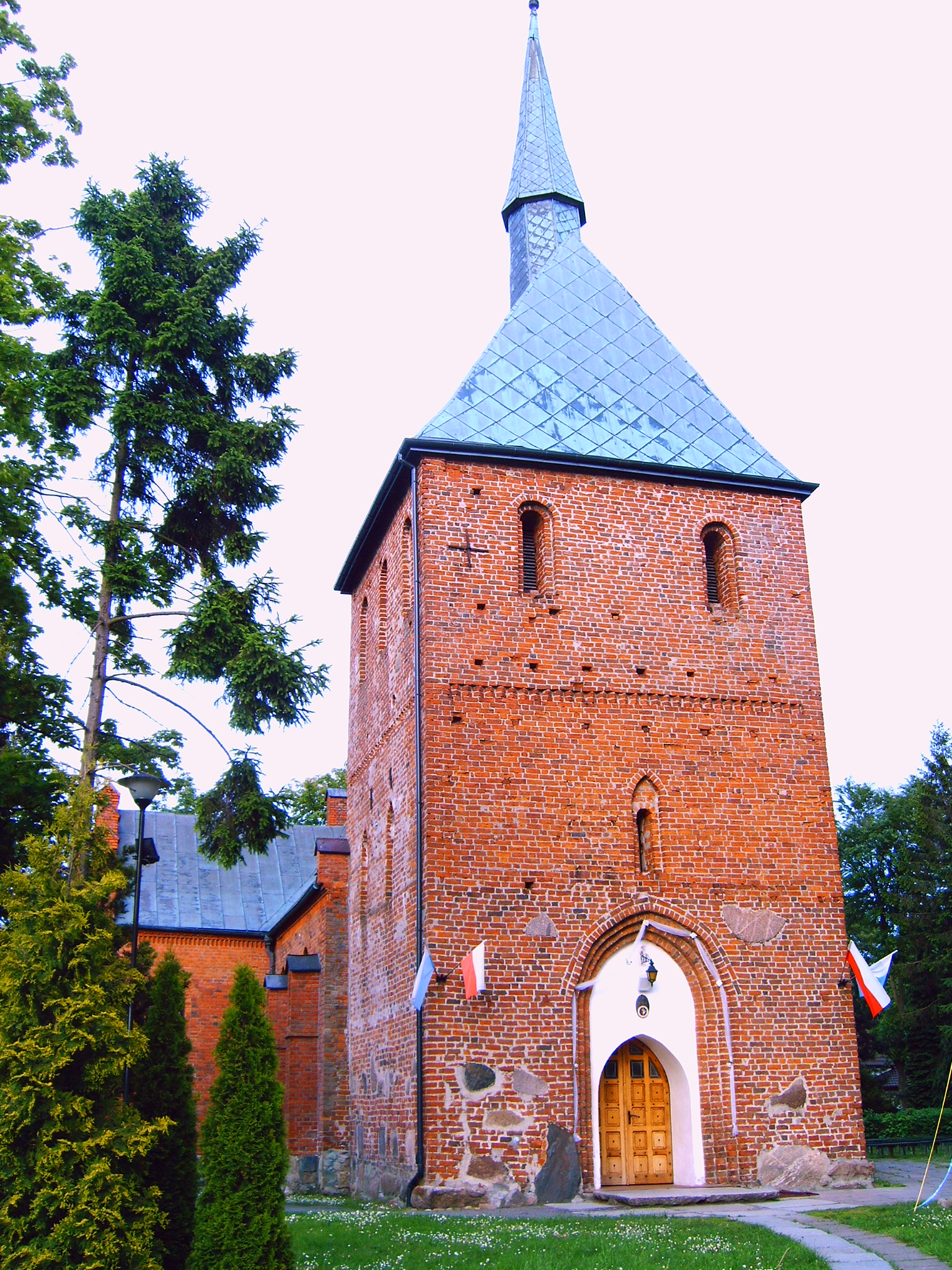 Poland, Mielno, Church of Transfiguration of Jesus, tower